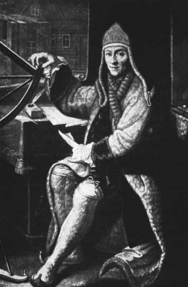 Maximilian Hell (1720 – 1792) dressed in a kind of Lapp costume during his stay at Vardo in 1769 to observe the transit of Venus